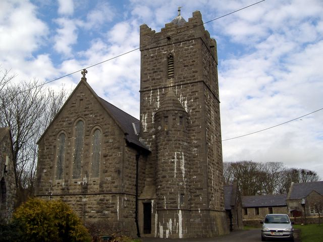 St Mary - Abbey Memorial Church, Ballasalla, Isle of Man Built from local limestone in a plain early English style. The foundation stone was laid in 1895 by Lady Ridgeway,the church was consecrated in 1896.